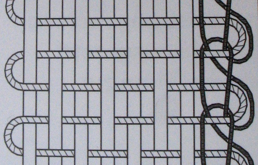 Weave of a ribbon with one knitted selvedge